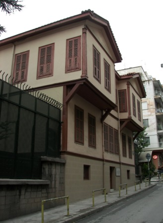 Atatürk birthplace in Thessaloniki